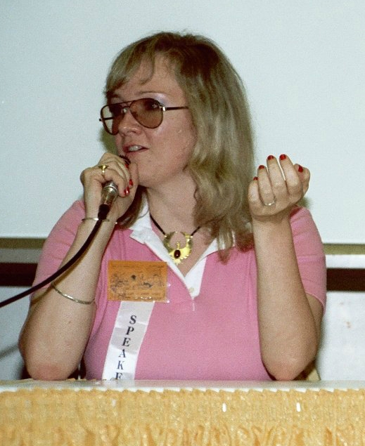 Jo Duffy at the 1982 San Diego Comic-Con, on the Women in Comics panel. Taken by Alan Light This file has been extracted from another file: Jo Duffy, Lee Marrs, Cat Yronwode.jpgJo Duffy, Lee Marrs, Cat Yronwode